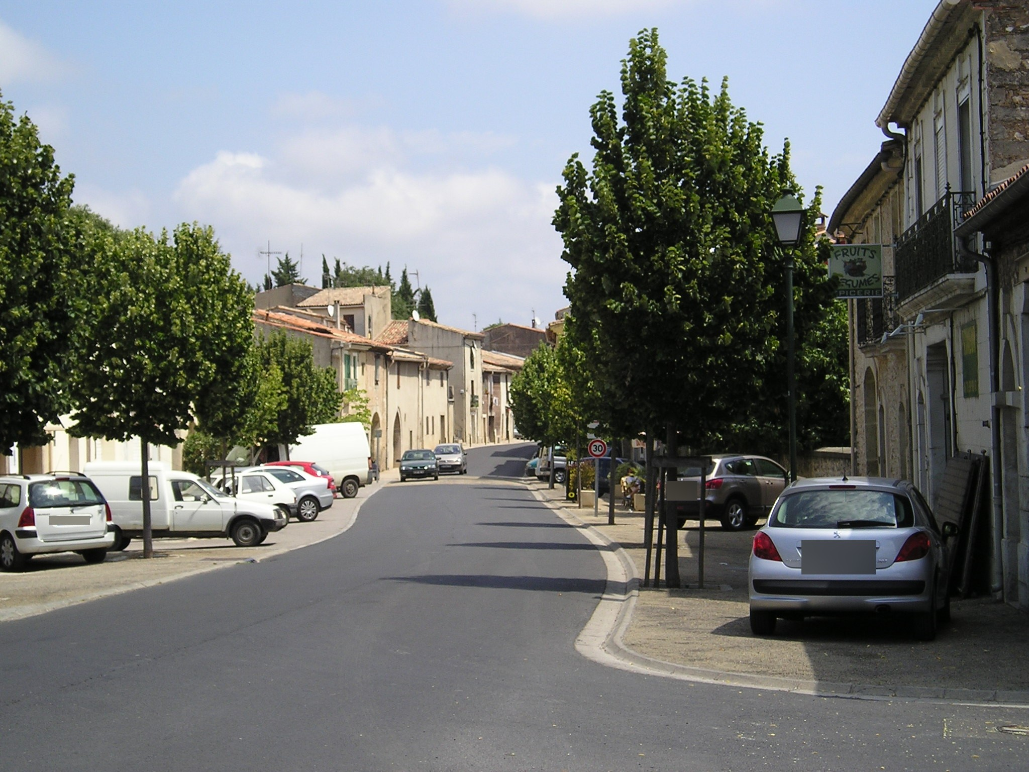 In Hérault, France, the main street (former N109 road) of Saint-Paul-et-Valmalle.